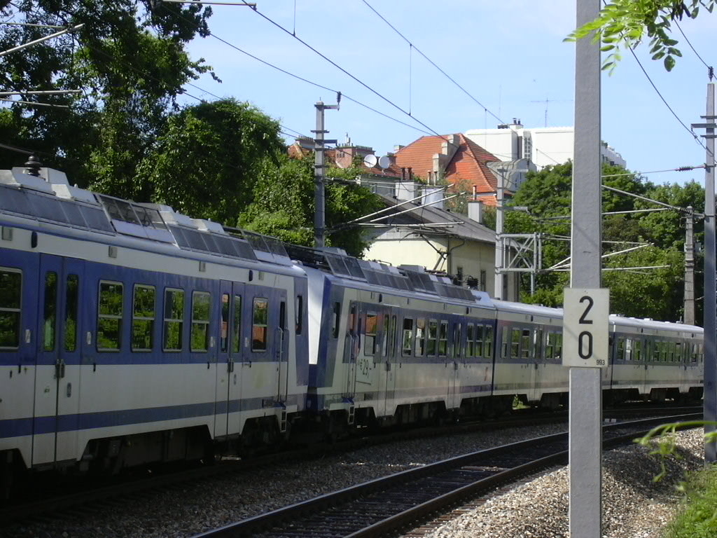 An S-Bahn (rapid transit) train on its way to Unter-Purkersdorf (Western Railway) on the Verbindungsbahn, connecting Southern and Western Railways within Vienna, passing through the former station area St. Veit an der Wien (near Hietzinger Hauptstrasse), 13th municipal district.